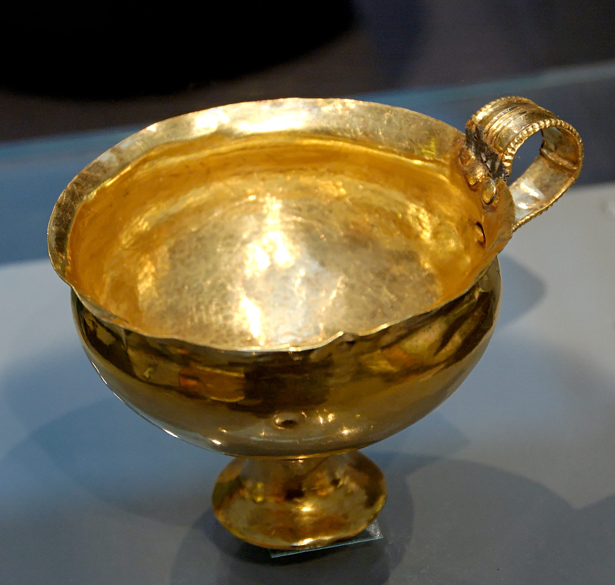 Gold stemmed goblet with one handle. Mycenaean artwork, ca. 1500 BC (Late Helladic II). Unknown provenance, contemporary with the Shaft Graves at Mycenae.